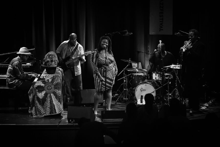 Jason Moran - Fats Waller Dance Party at Victoria Scene during Oslo Jazzfestival 2015.